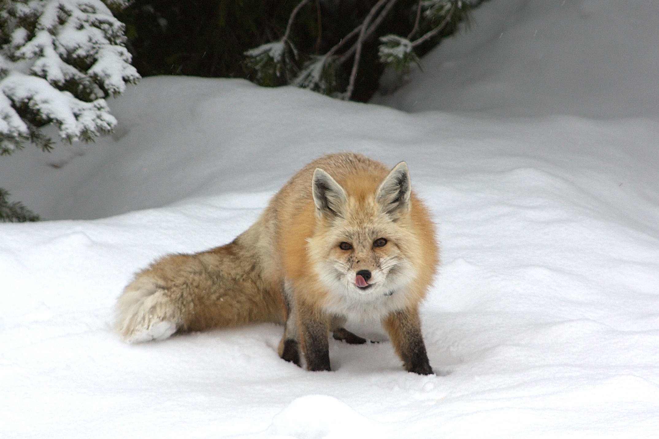 A Cascade Red Fox active during Paradise's long winter. Photo by Kevin Bacher.